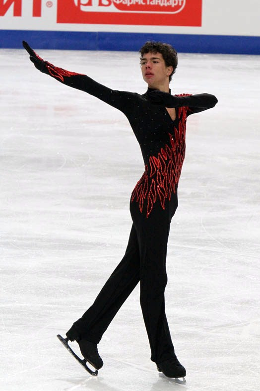 Jorik Hendrickx at the 2011 European Figure Skating Championships.